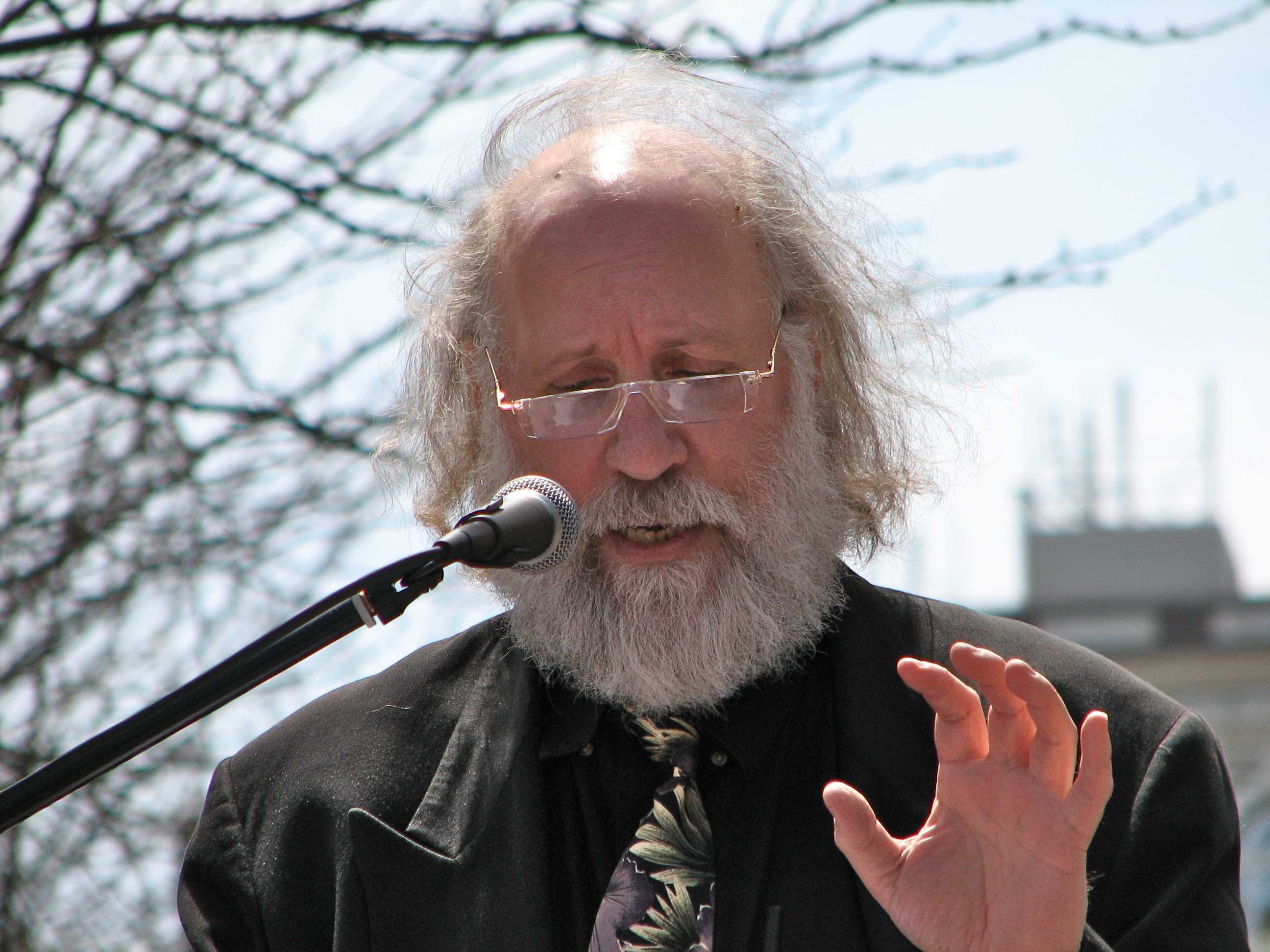 Cary Nelson, president of the American Association of University Professors, speaks out against the casualization of academic labor at a New Haven "teach-out" sponsored by Yale University's Graduate Employees and Students Organization (GESO)